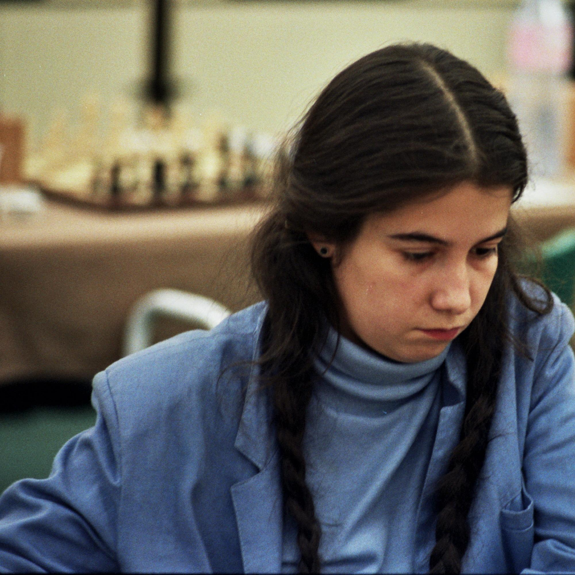 Agnieszka Brustman, Chess Olympiad 1984 in Saloniki, Photographer Gerhard Hund.